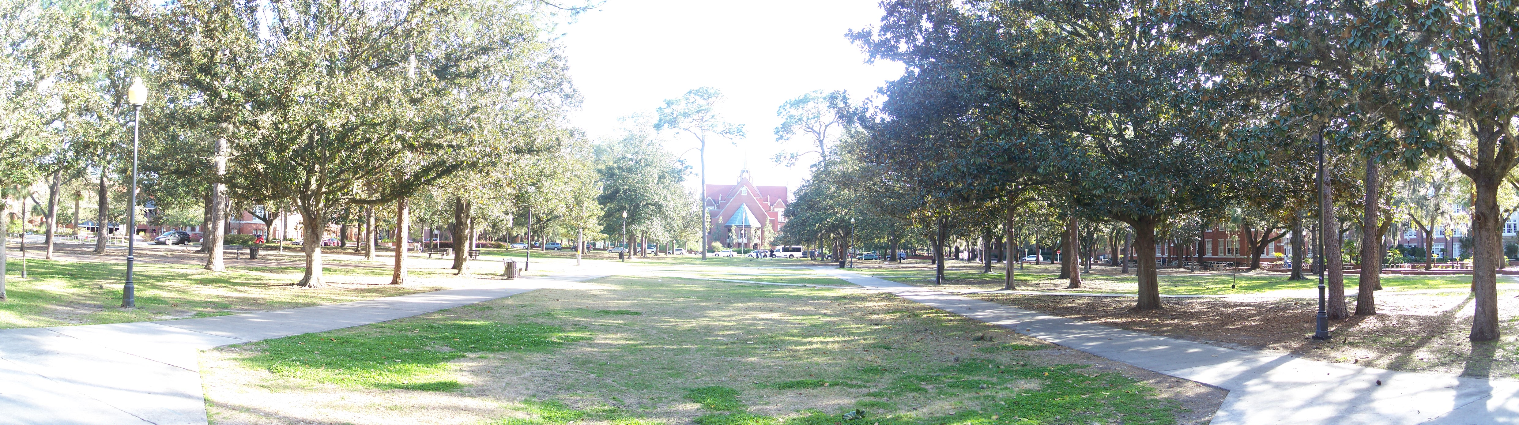 Gainesville, Florida: University of Florida: Panorama view of the Plaza of the Americas. This is looking south from Library West. The building centered in the distance is University Auditorium.